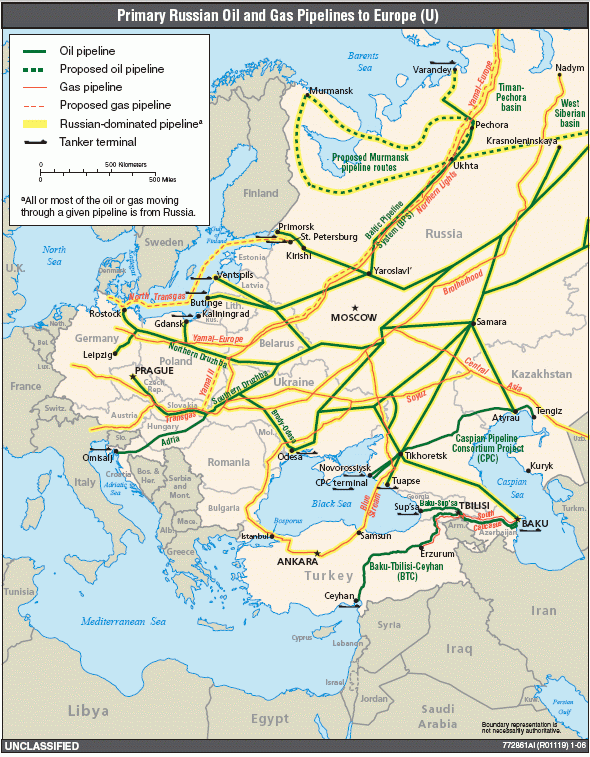 Natural gas pipelines from Russia to Europe. Notice: For some planned pipelines, this map could be out of date. !!!